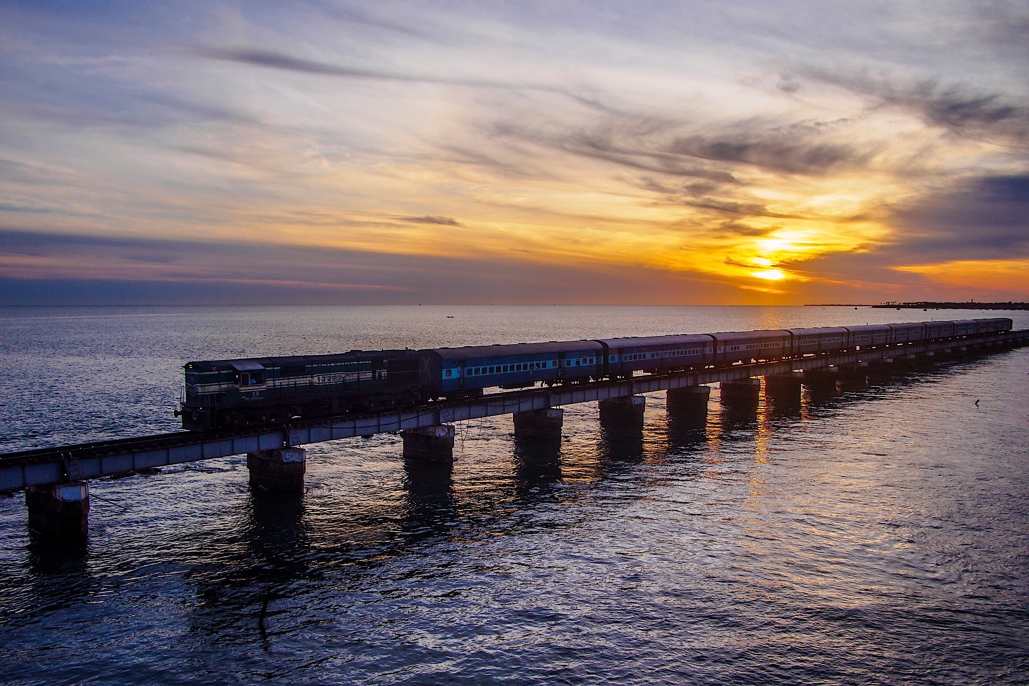 Pamban Bridge, Rameshwaram